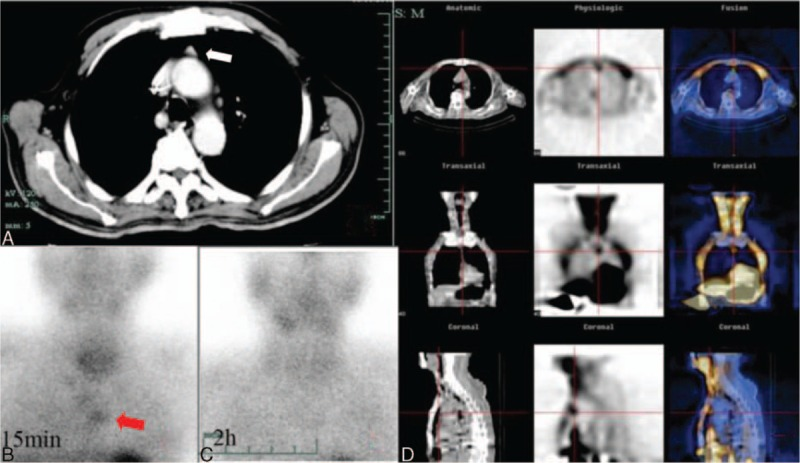 Contrast-enhanced CT of the thorax showed a well-defined soft tissue mass in front of the aortic arch in the upper-anterior mediastinum (A); 99mTc-MIBI showing early tracer uptake by thyroid glands and the gland in superior thorax at 15 minutes (B); rapid 99mTc-MIBI clearance in the superior mediastinum at 2 hours delayed phase (C); the accurate localization of mediastinal ectopic parathyroid adenoma with SPECT/CT (D). CT = computed tomography, MIBI = sestamibi, SPECT = single photon-emission computed tomography.